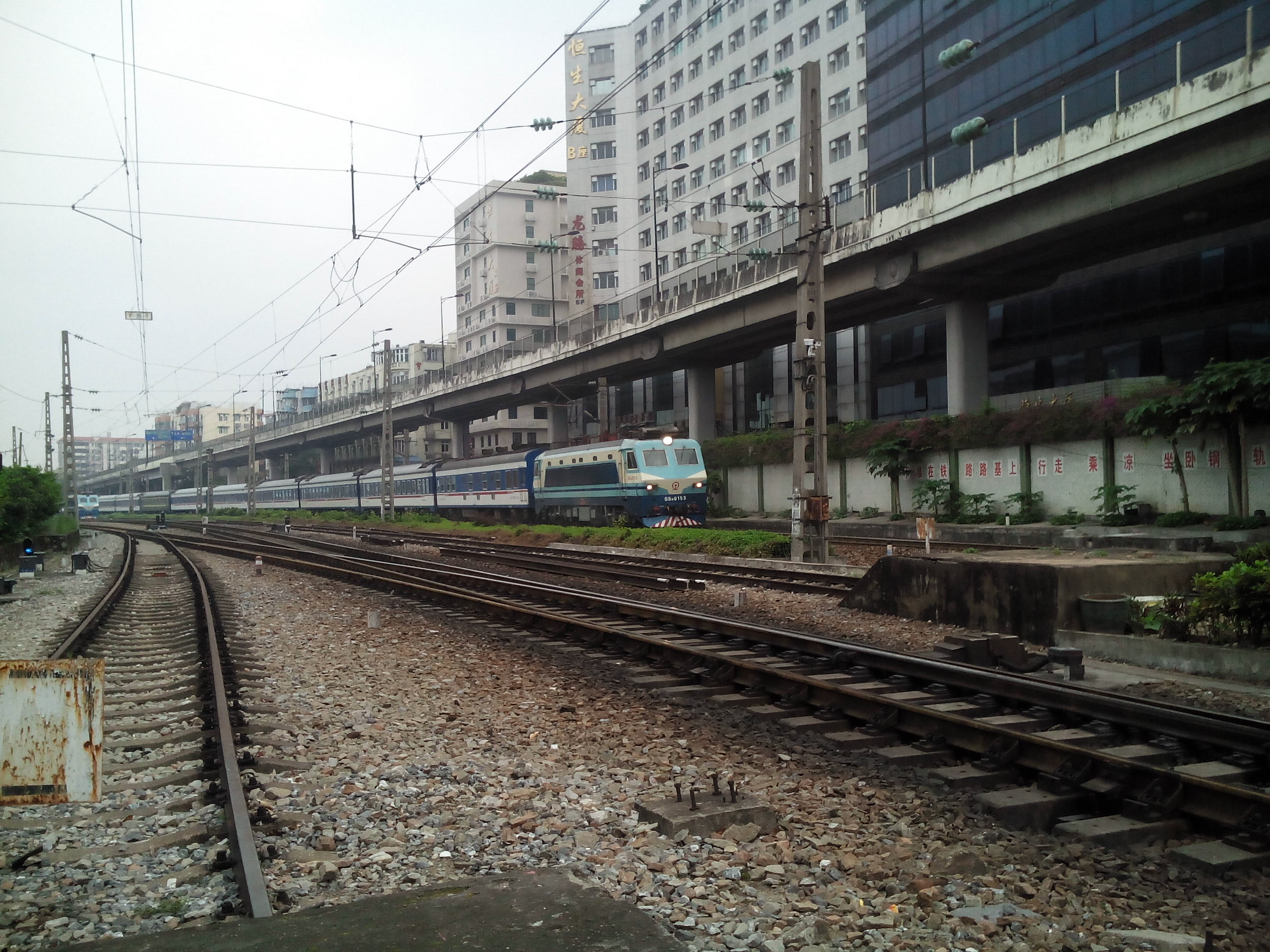 201504 T171 passes Shejichang level crossing, suddenly I realized the deep meaning of T171